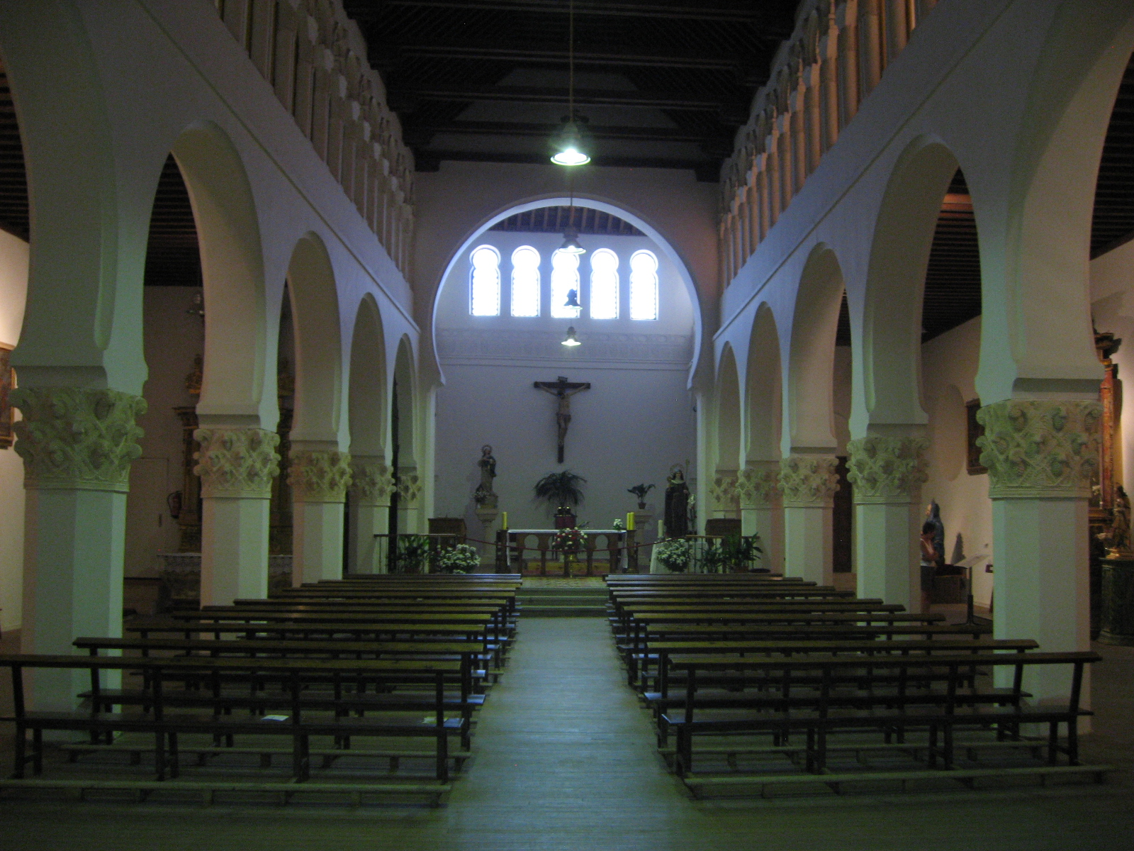 Interior of the old main synagoge of Segovia, Spain.